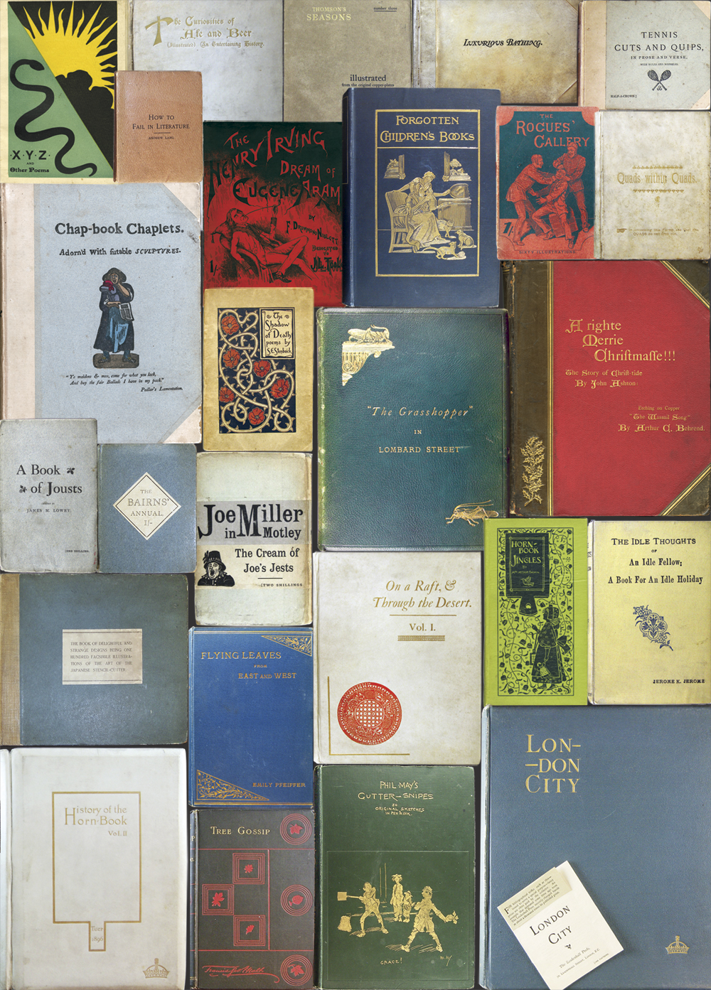 Leadenhall Press publications, 1880-1890.